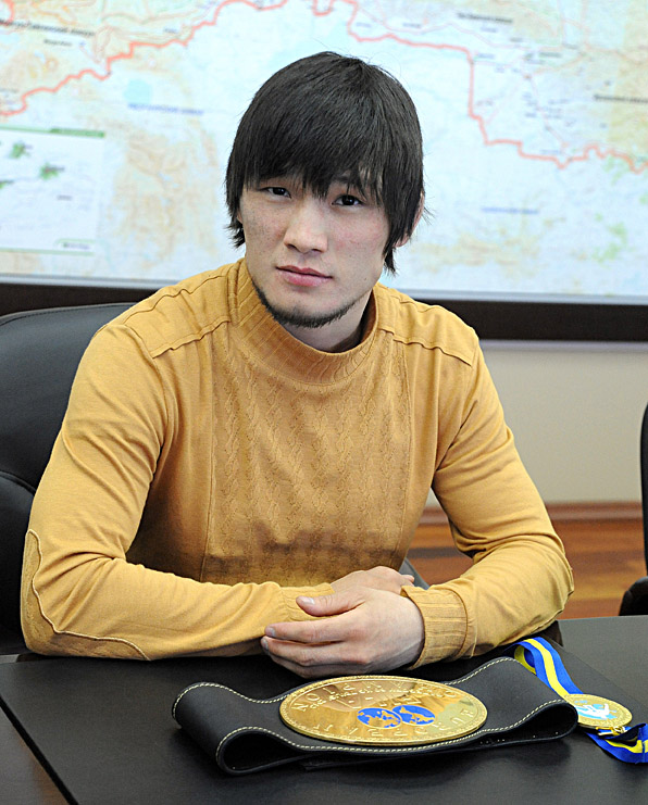 Tyvan wrestler Opan Sat